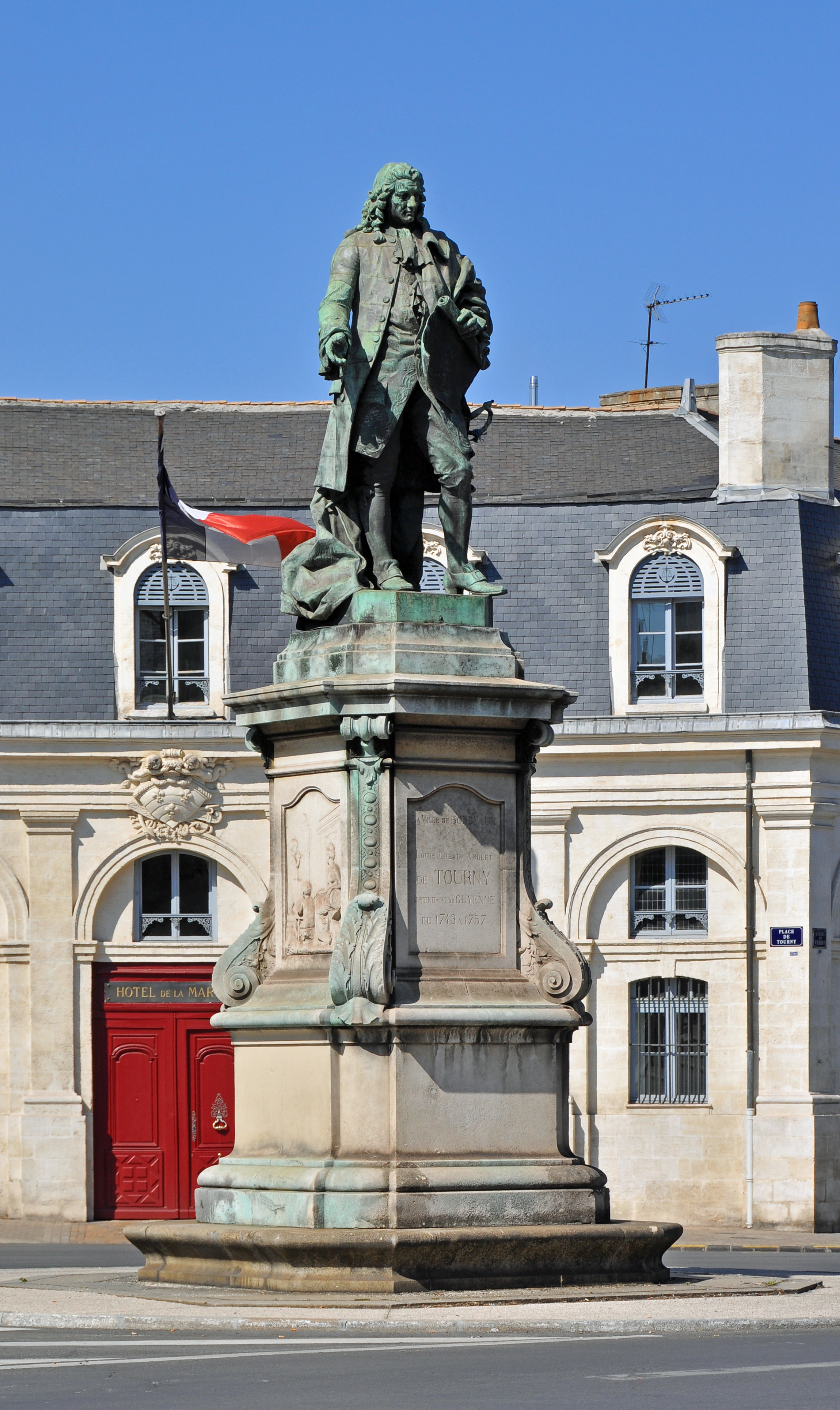 Bordeaux (France), Place de Tourny: statue of Louis Urbain Aubert marquis de Tourny (1695-1760), intendant (royal administrator) in Bordeaux from 1743 to 1757.